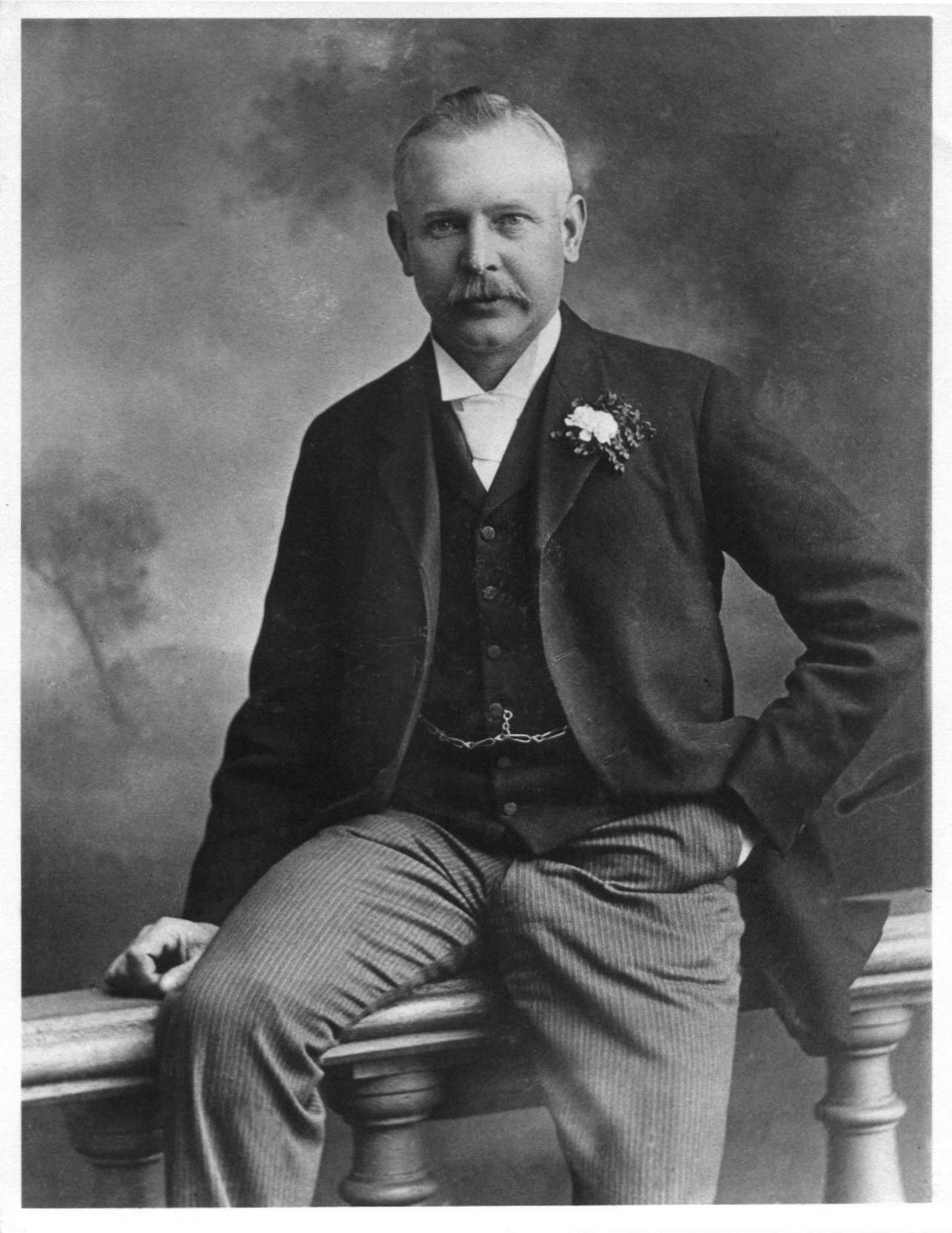 Photograph of Dan Albone (1860–1905)